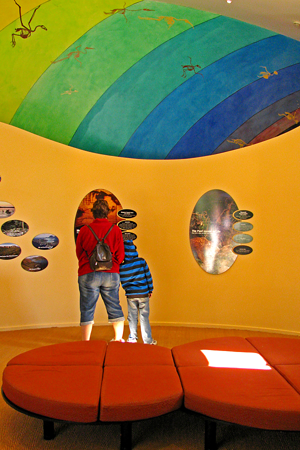 Naracoorte Cave National Park (Australia) Information Centre